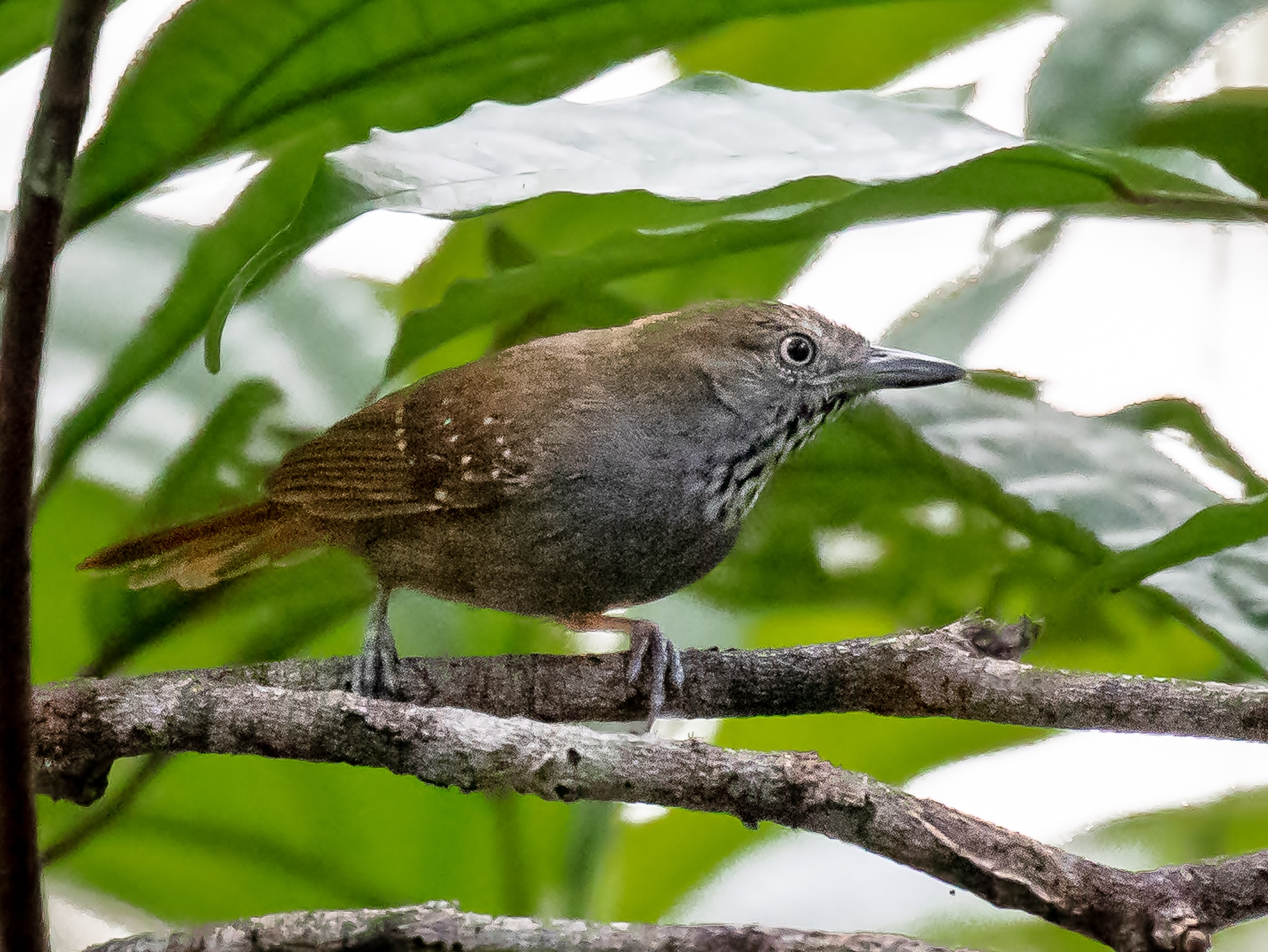 Brown-bellied Antwren (male); Manaus, Amazonas, Brazil